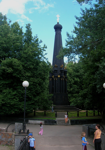 Antonio Adamini. Memorial to the defenders of Smolensk from Napoleon. Unveiled in 1841.